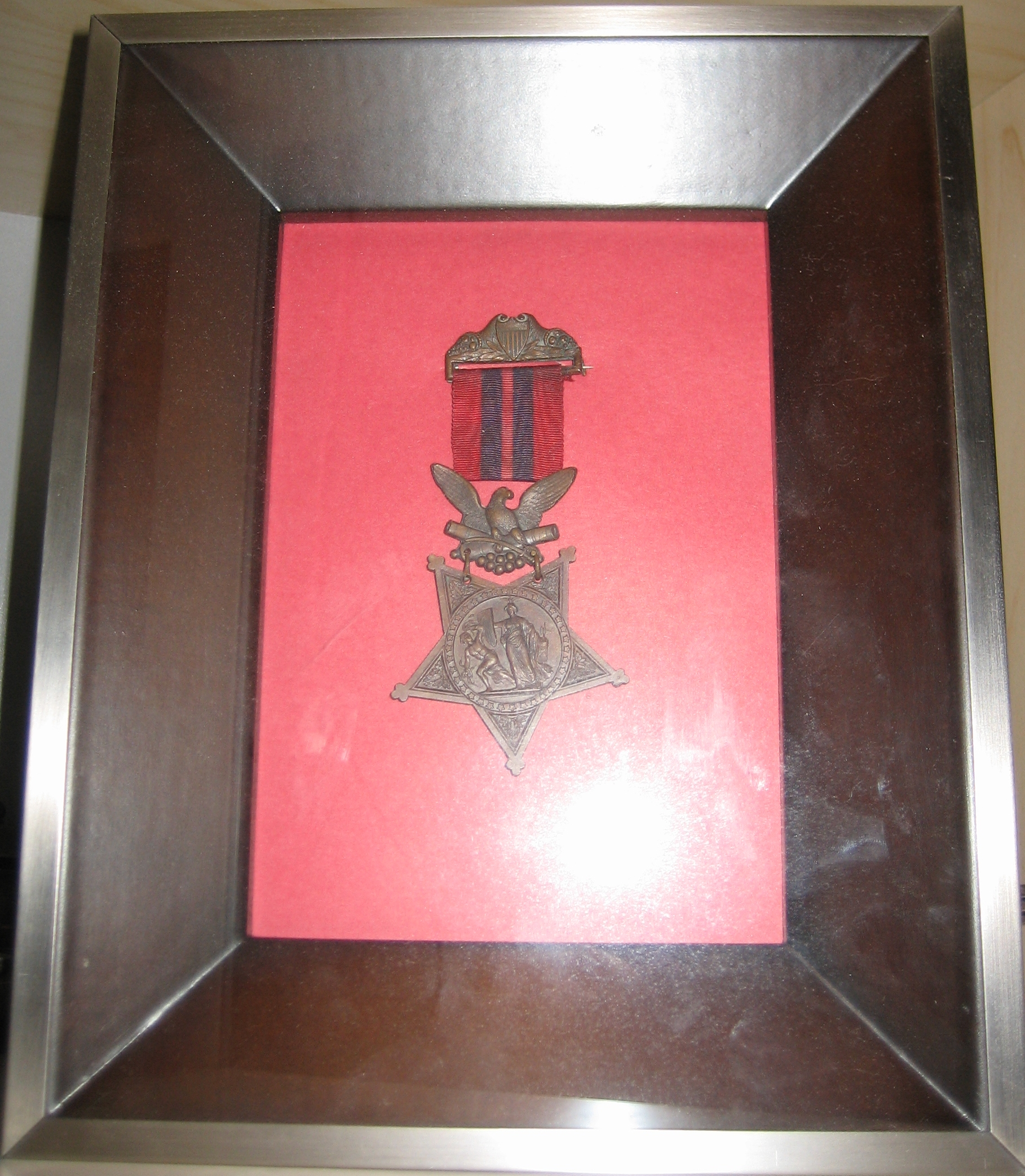 Medal of Honor of United States Army Maj. General Frederick Funston; this is the original medal awarded in 1899. Congress later redesigned the Medal of Honor and gave all recipients a new version with a blue ribbon; that medal today sits in the Funston Boyhood Home & Museum in Iola, Kan.) Original medal is in care of Funston's great-grandson, Demian McLean. The above medal, awarded in 1899, reads on the reverse: "The Congress to Brig. Gen. Frederick Funston, U.S. Volunteers for gallantry at Rio Grande de la Pampanga, Luzon, April 27, 1899, when Colonel 20th Kansas Volunteers"